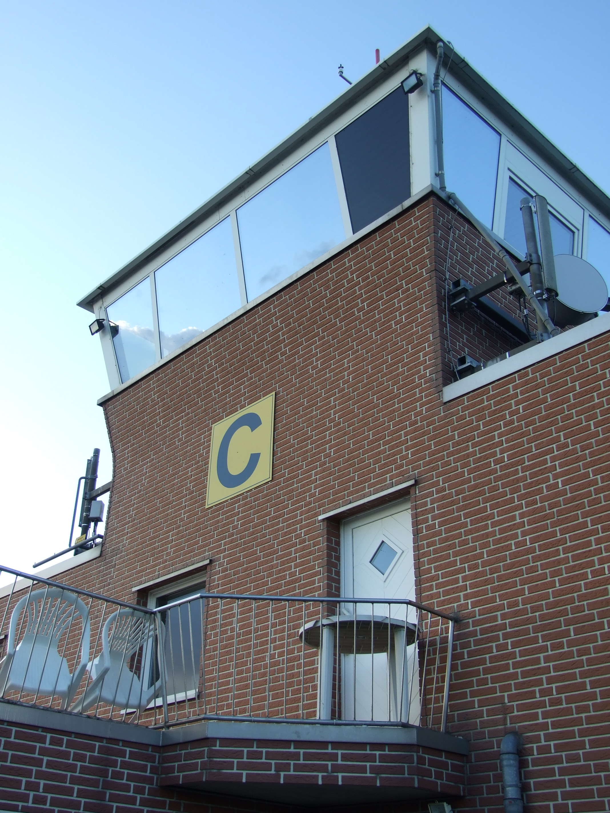 Tower and terrace for visitors